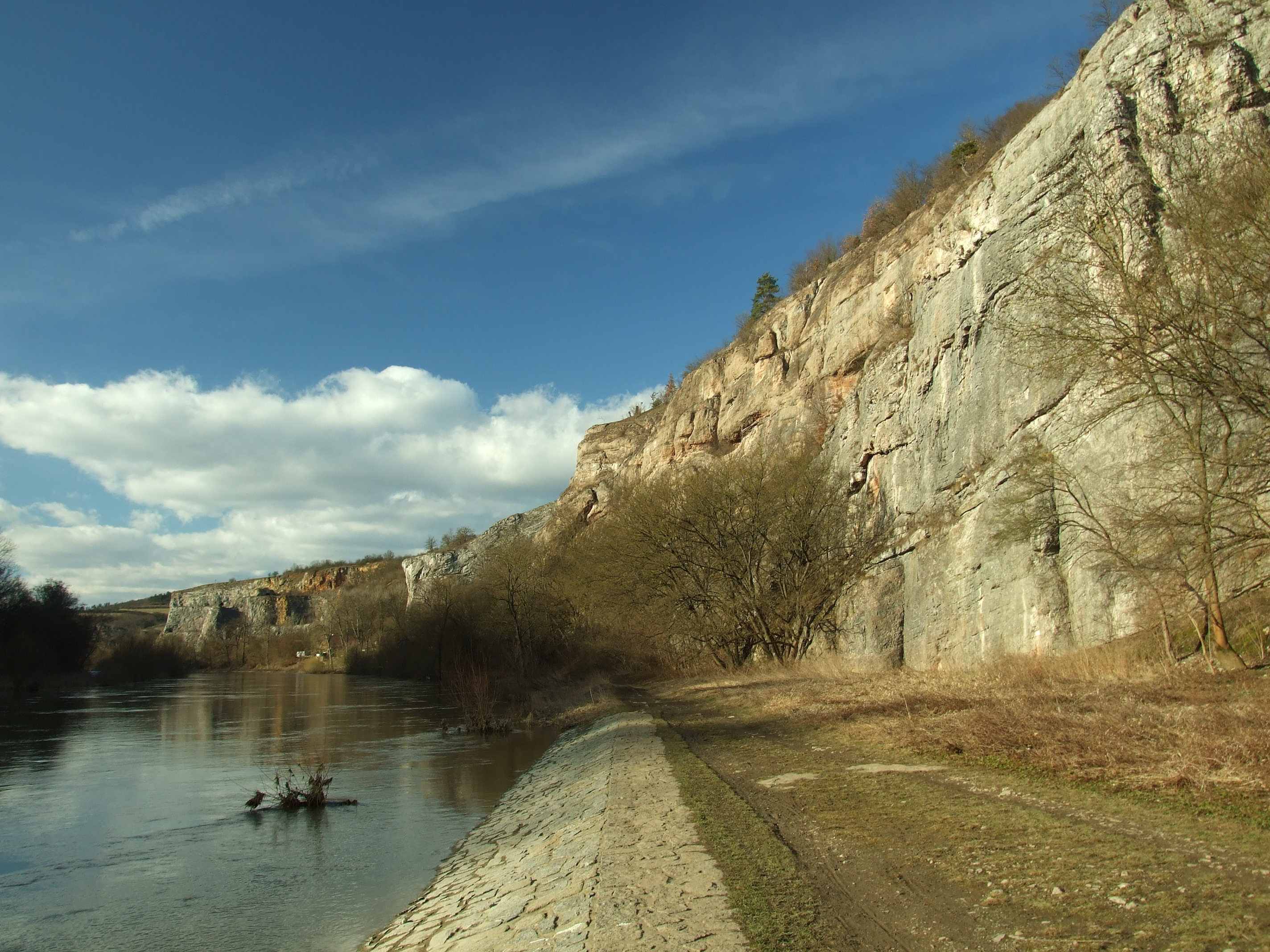 Berounka river valley between Beroun and Srbsko, Central Bohemian Region, CZ